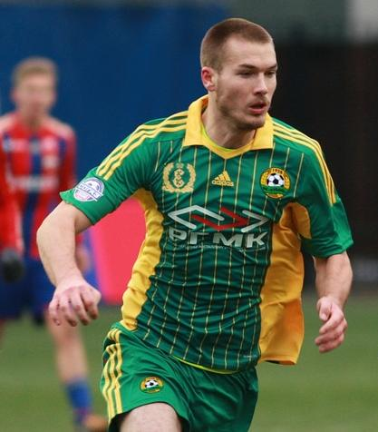 Toni Šunjić playing for FC Kuban Krasnodar against CSKA Moscow on 18 October 2014.